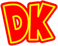 Donkey Kong series short logo